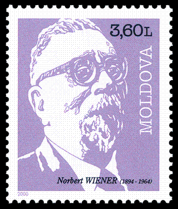 Stamp of Moldova